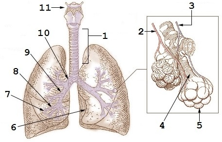 This file was derived from: Illu bronchi lungs.jpg The original PD image is modified by replacing the text labels with numerical labels, using the same numbering scheme as File:Diagrama de los pulmones.svg. This image can therefore functionally replace File:Diagrama de los pulmones.svg, resolving concerns about the accuracy of that image discussed at Commons:Deletion_requests/File:Diagrama_de_los_pulmones.svg. Date provided is date of upload to Commons of original PD image.